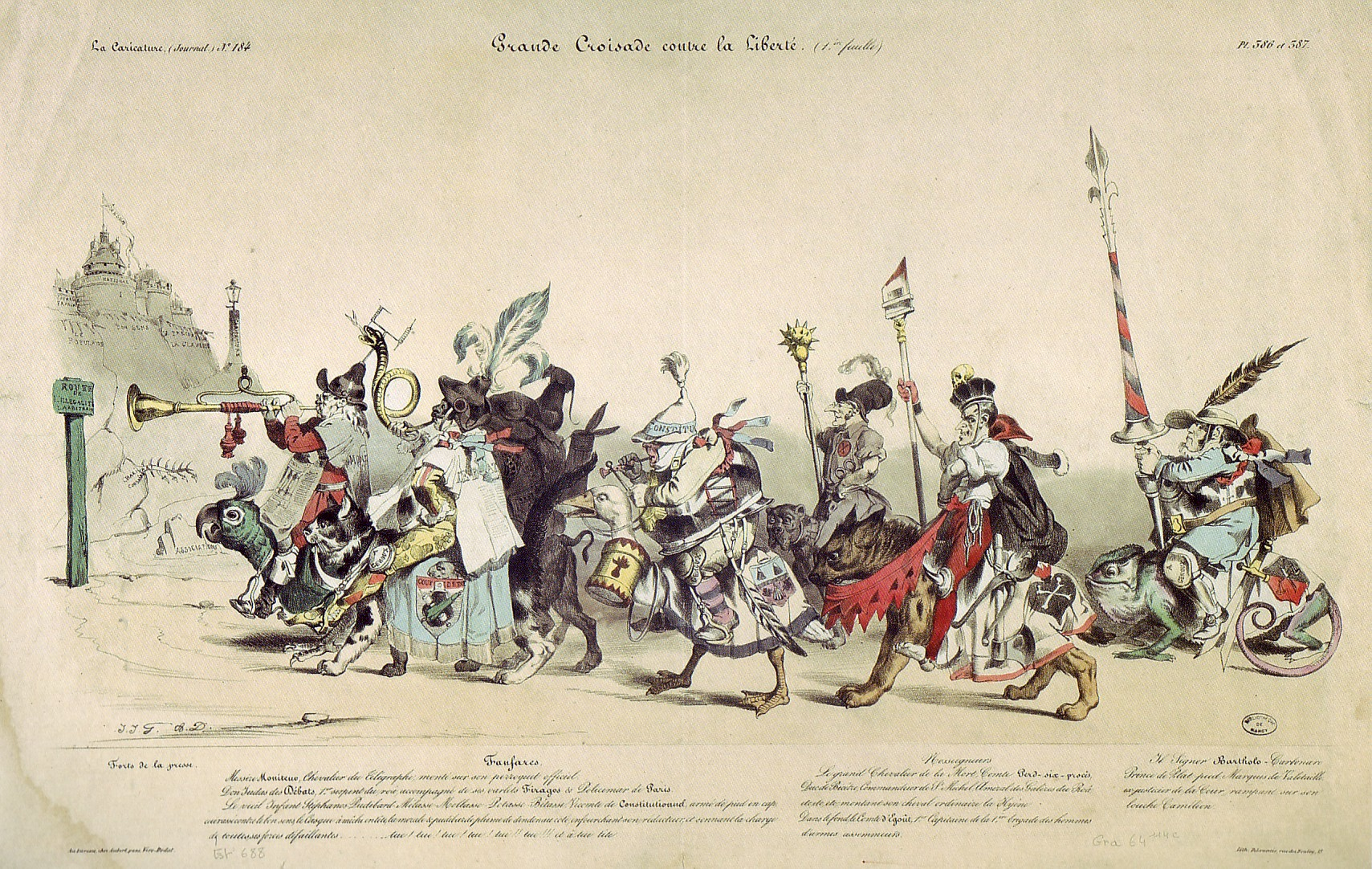 Caricature "Grande Croisade contre la Liberté" (Great crusade against freedom), Nr. 1, by the french artist J. J. Grandville, lithography.